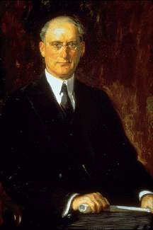 Indiana Governor James P. Goodrich